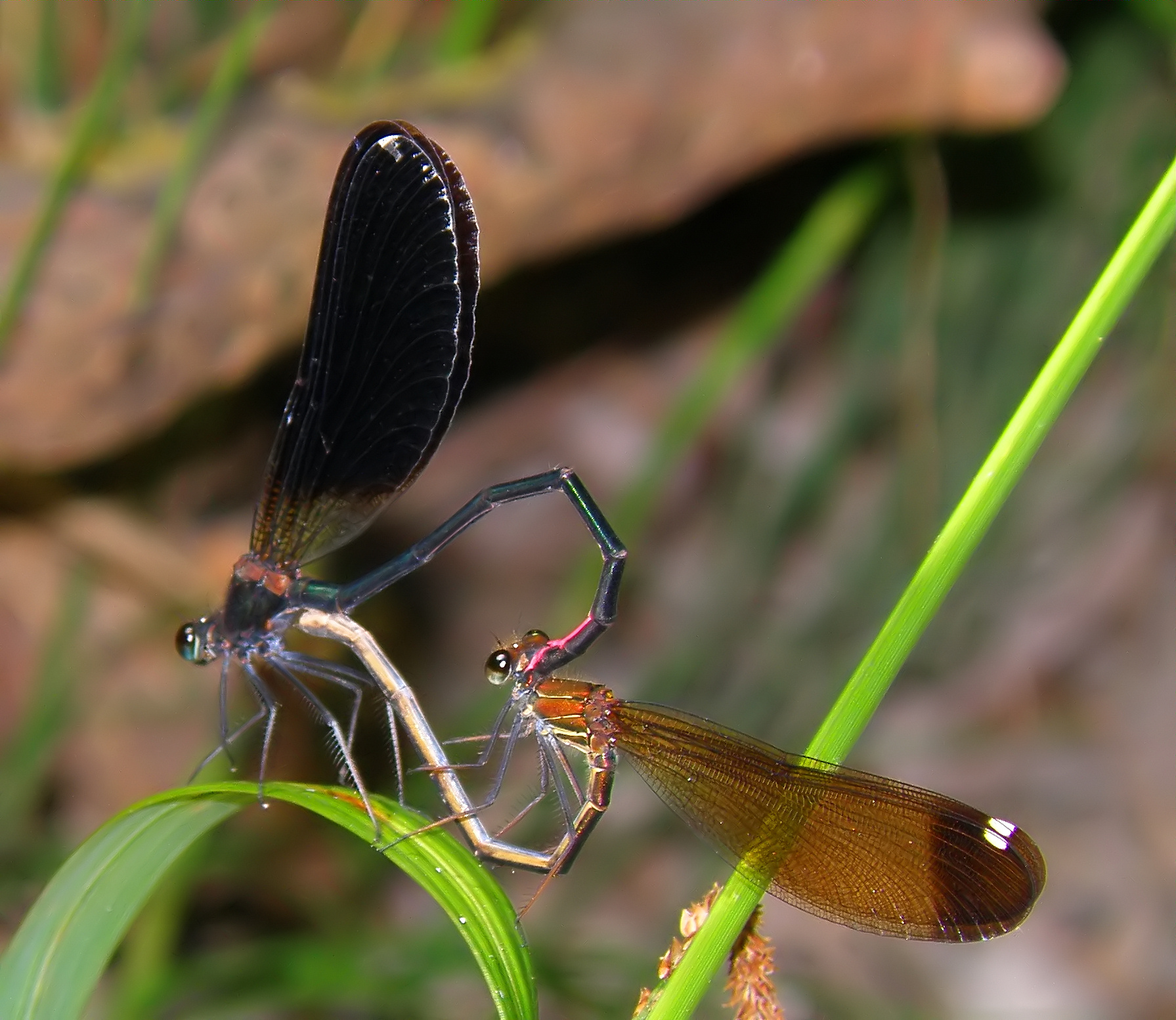 A couple of damselflies during mating (species: Calopteryx haemorrhoidalis)